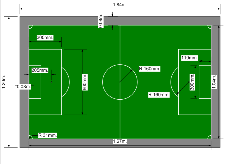 Button football: Sample dimensions of a button football table and field author: Megamemnon